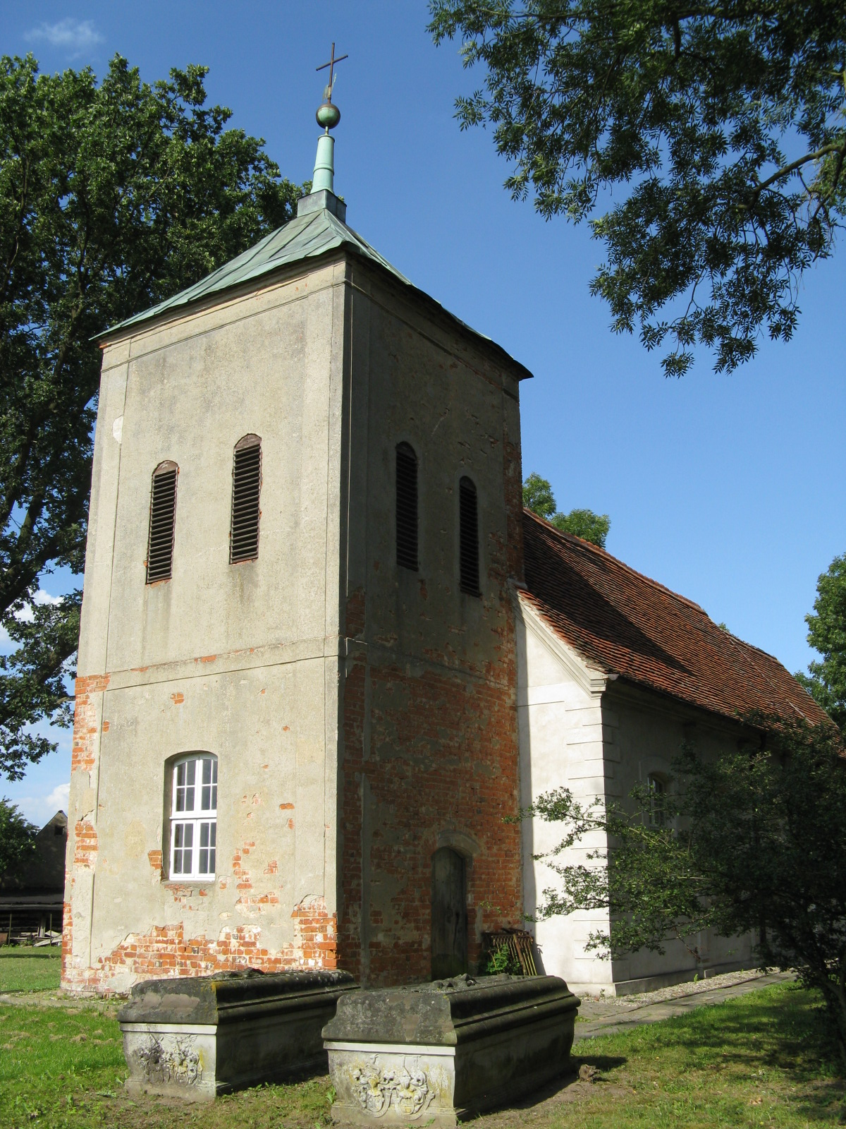 Church in Melz, district Mecklenburgische Seenplatte, Mecklenburg-Vorpommern, Germany